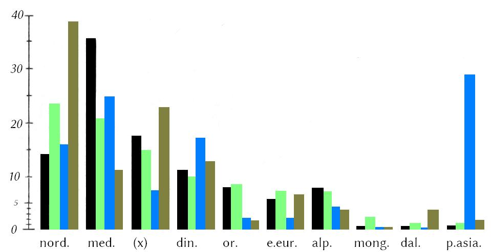 Graph based on purported racial data, as presented by controversial Romanian sociologist Iordache Făcăoaru. Introduced by Făcăoaru as Compoziţia rasială a studenţilor dela Universitatea din Cluj ("The Racial Makeup of Cluj University Students"), within his 1938 essay Contribuţie la studiul compoziţiei rasiale a studenţilor minoritari din România ("A Contribution to the Research of Racial Makeup among Minority Students in Romania"). The cited work is based on anthropometric "intuitive data", corroborated with student photographs as filed by the military recruitment office in Cluj. Based on such measurements, Făcăoaru divides his subjects into pseudoscientific racial categories, while keeping in mind their officially recorded ethnicity. For the scholarly critique of Făcăoaru's method and politics, including Contribuţie la studiul compoziţiei..., see for instance Lucian T. Butaru, Rasism românesc. Componenta rasială a discursului antisemit din România, până la Al Doilea Război Mondial, Editura Fundaţiei pentru Studii Europene, Cluj-Napoca, 2010. ISBN 978-606-526-051-1 Romanians Hungarians Jews Germans nord. Nordic; med. Mediterranean; (x) Not determined; din. Dinaric; or. Oriental; e.eur. East-Europaeid; alp. Alpine; mong. Mongoloid; dal. Dalic; p.asia. Pre-Asiatic.